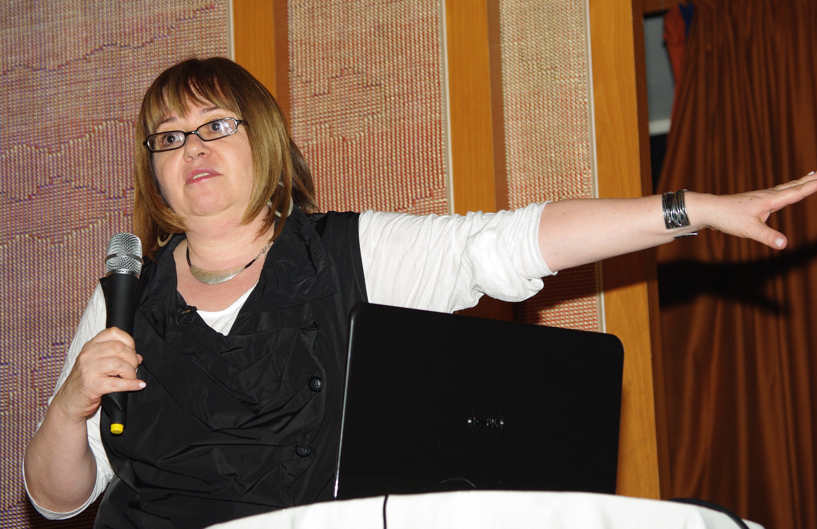 Feminist anti-pornography activist Gail Dines speaks at Temple Emanu-El in Westmount, Quebec on Oct. 15, 2013.